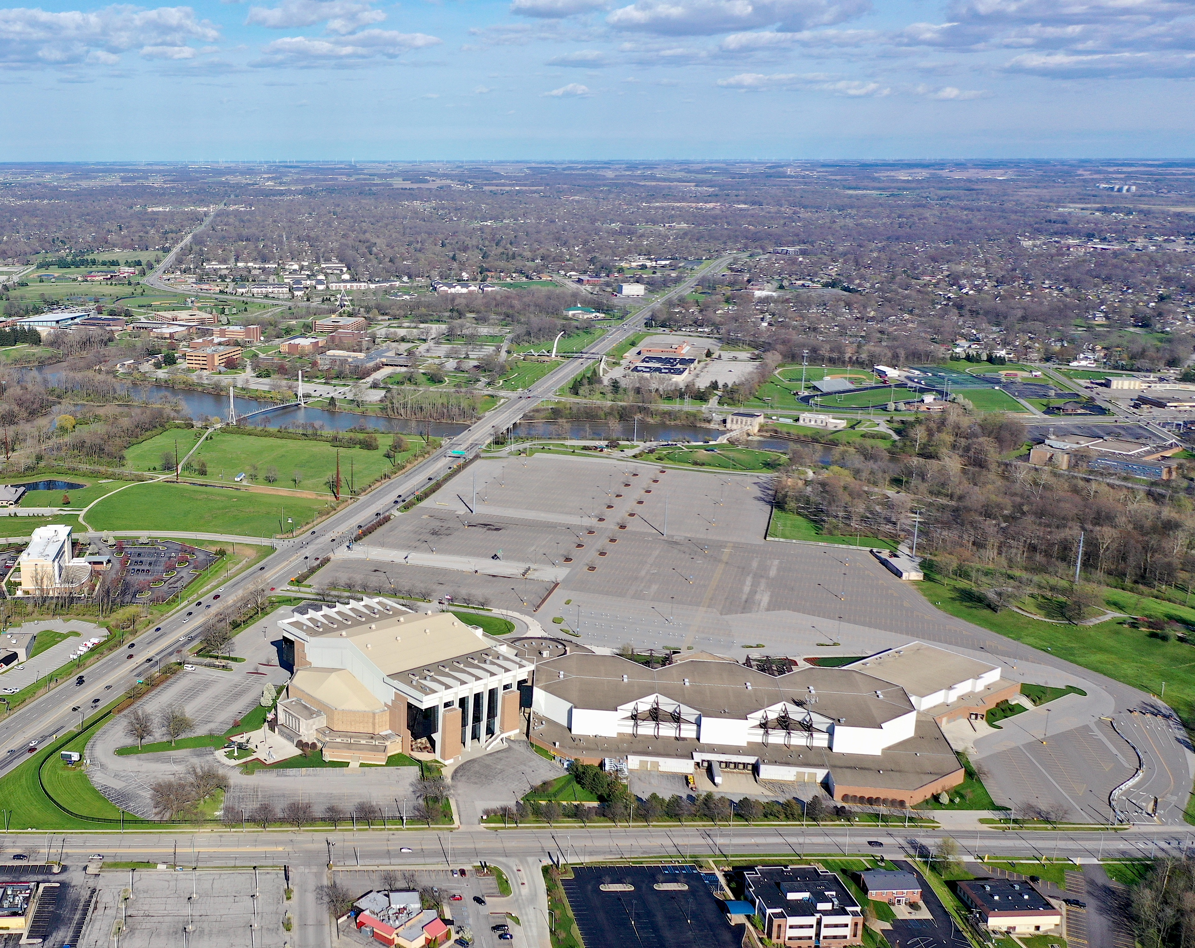 The Allen County War Memorial Coliseum in April of 2020 from a similar elevation and angle as the construction image.